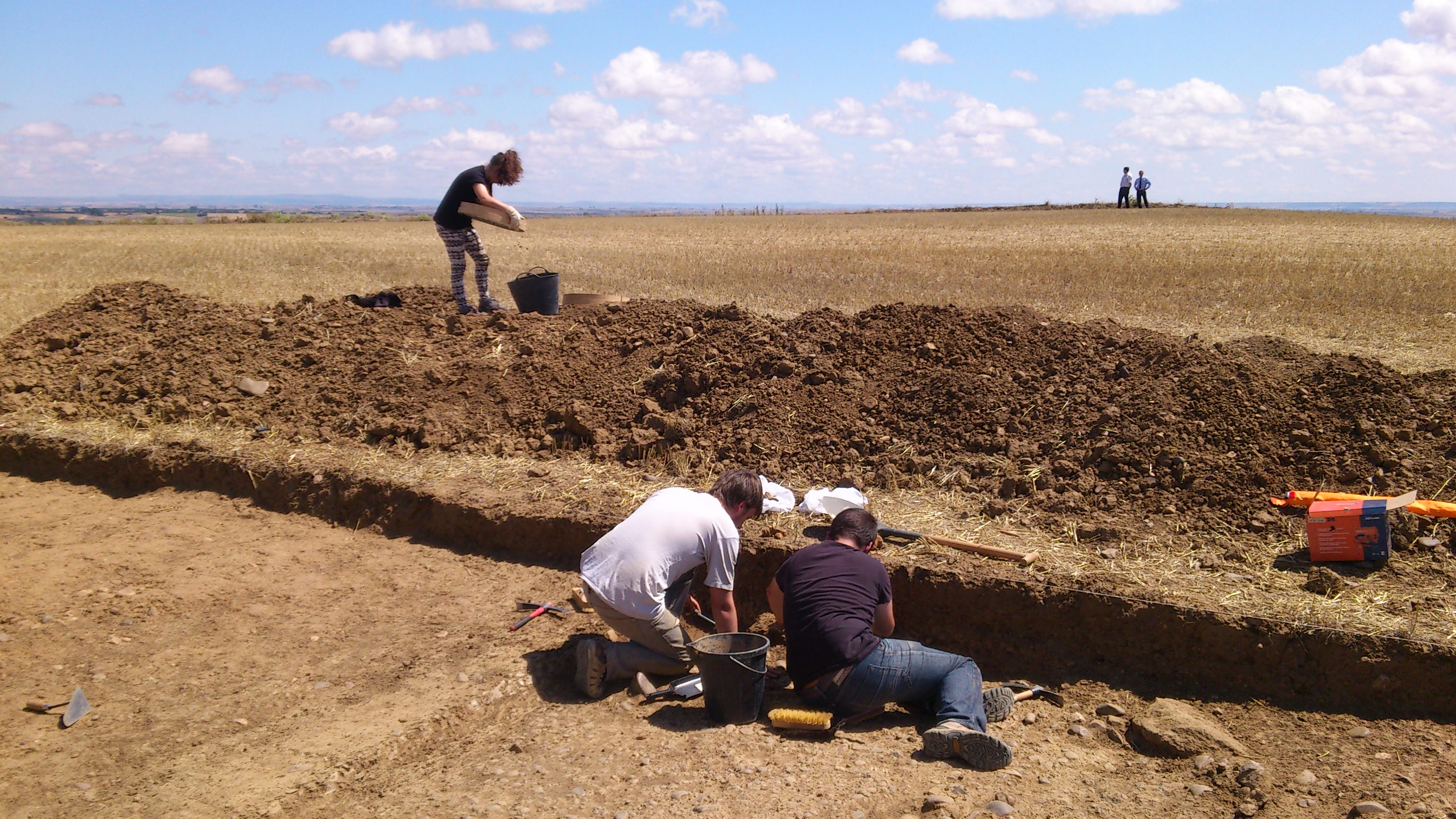 Archaeological excavations at the site of Dessobriga in Osorno la Mayor (province of Palencia, Castile and León).